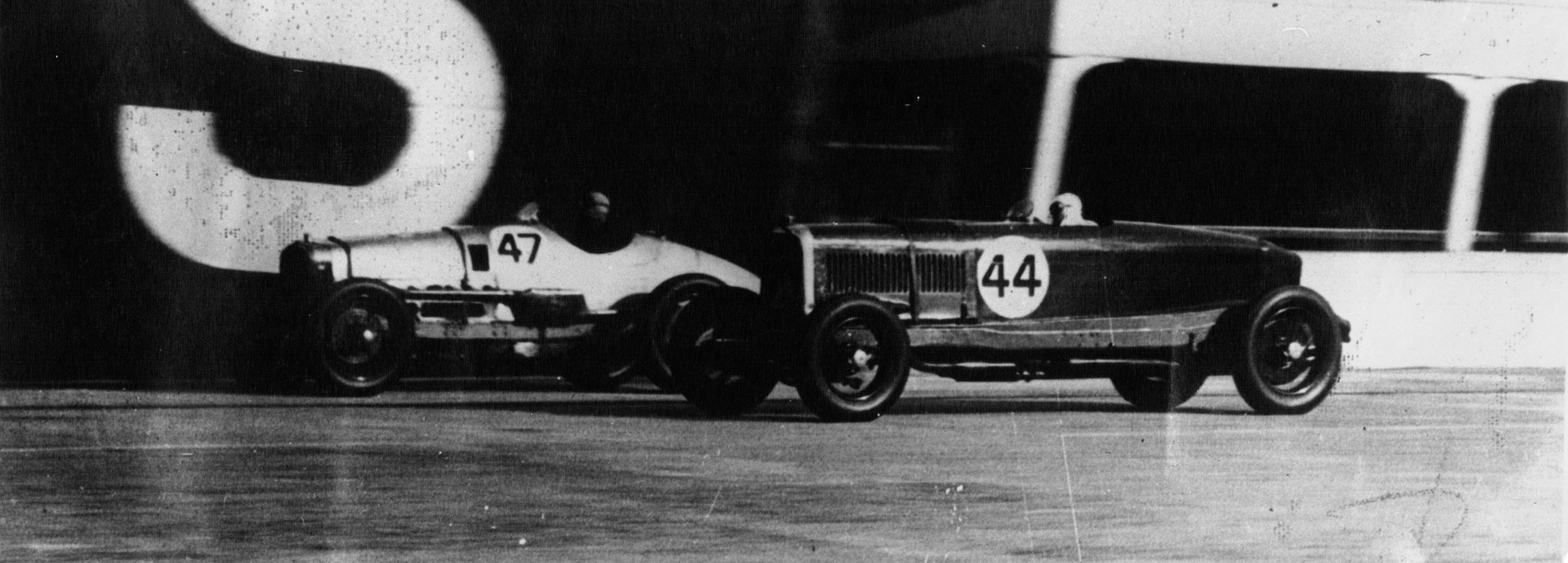 British Empire Trophy, #47 John Cobb in Delage and #44 George Eyston in Panhard.